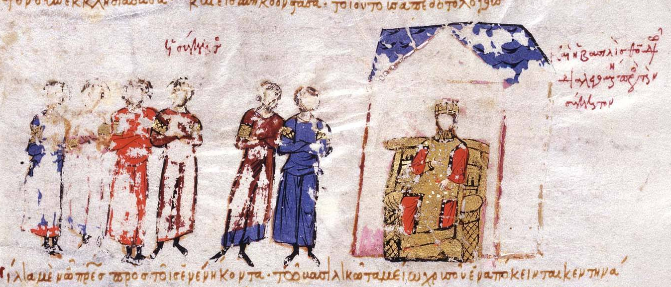 Empress Theodora confers with the Byzantine Senate. Madrid Skylitzes Fol. 71r